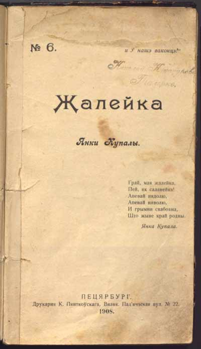 Cover collection of poems Kupala "Zhaleyka"